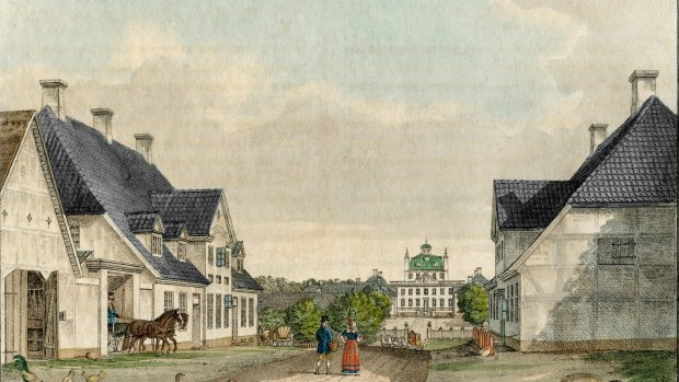 Drawing showing Fredensborg Slot as seen from Slotsgade with Rejsestalden to the right in Fredensborg, Denmark